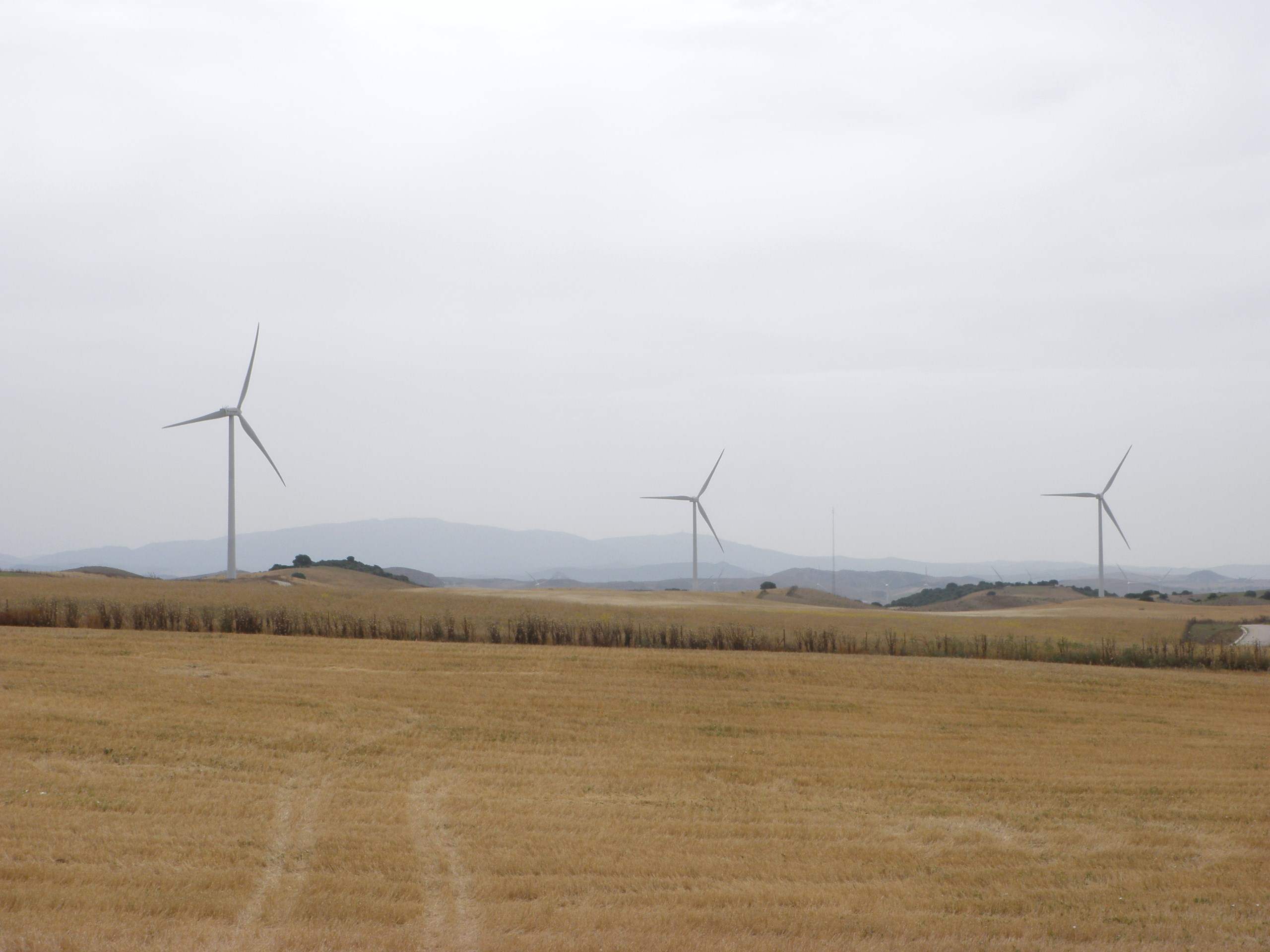 Los Almeriques wind farm, Medina-Sidonia, Cadiz, Spain.